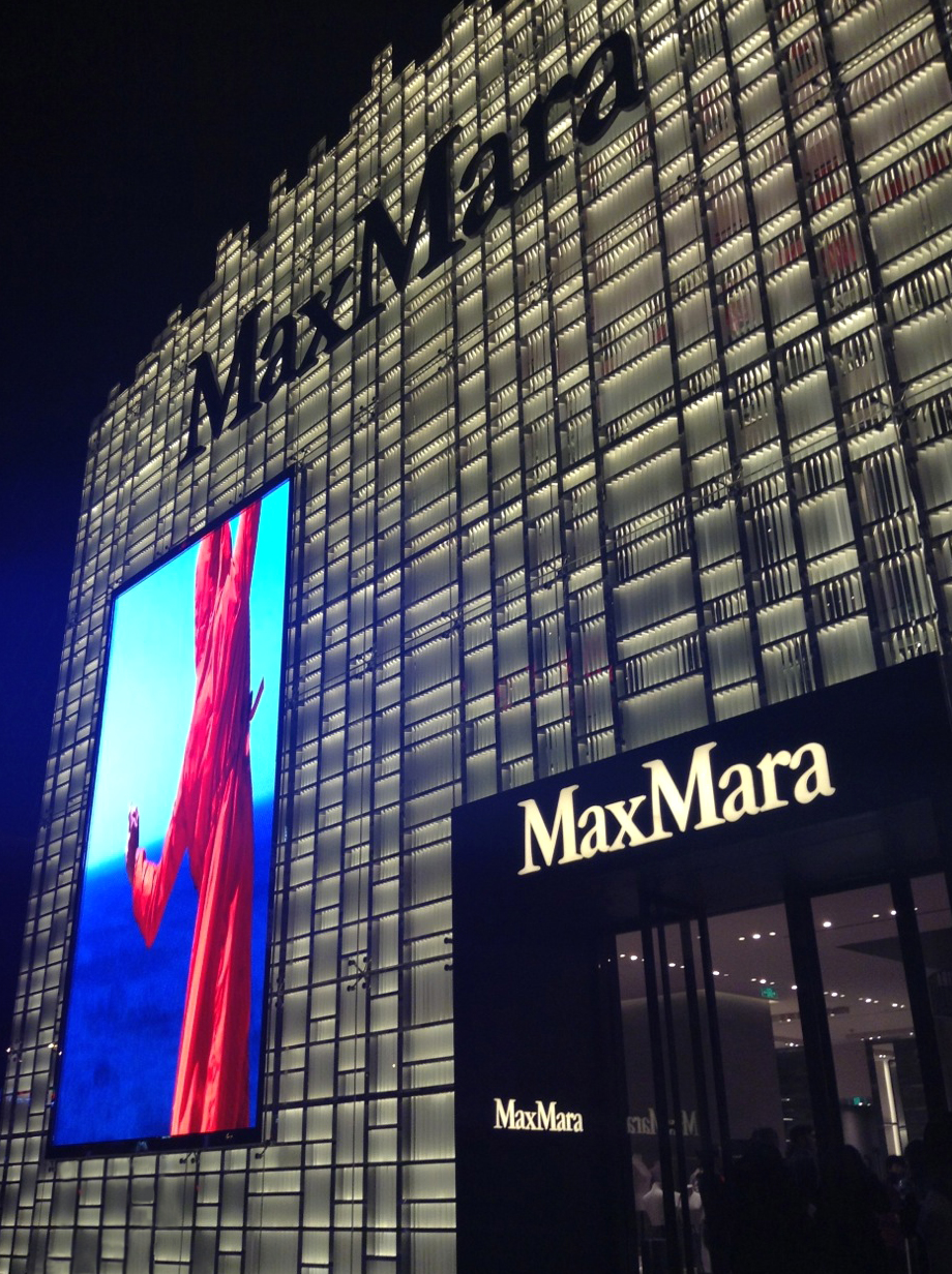 Max Mara Flagship store in Beijing, Avenue de Luxe